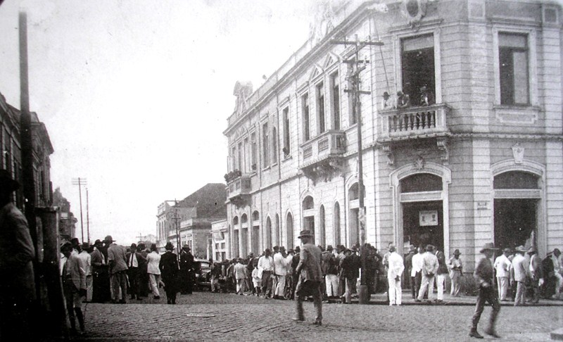 Jaú, 1925